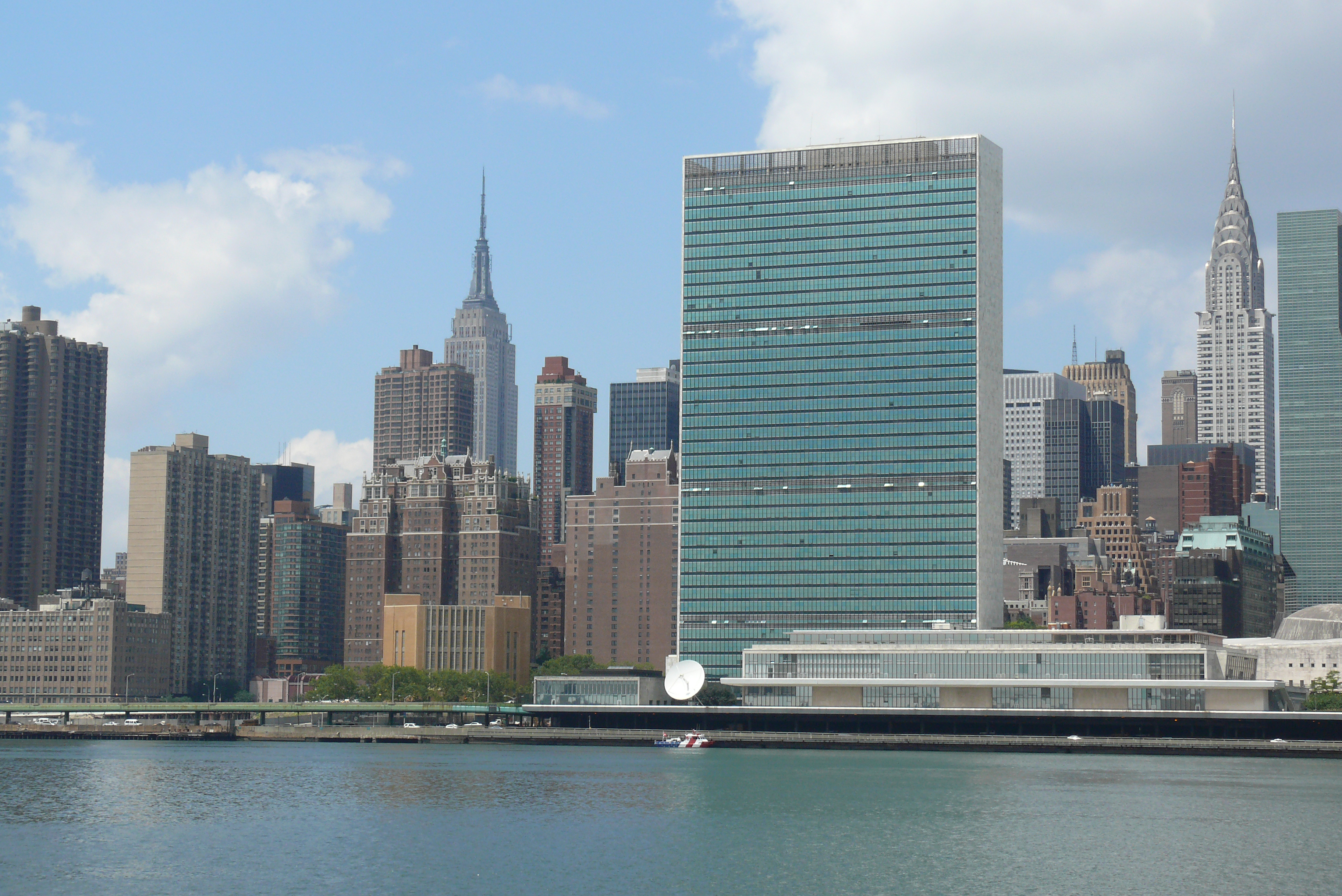 The Empire State Building, the United Nations Headquarters and the Chrysler Building (left to right) as seen from the East River. The Empire State Building is a 102-story landmark Art Deco skyscraper in New York City at the intersection of Fifth Avenue and West 34th Street. Its name is derived from the nickname for the state of New York. The United Nations Headquarters is a distinctive complex in New York City that has served as the official headquarters of the United Nations since its completion in 1950. The Chrysler Building is an Art Deco skyscraper in New York City, located on the east side of Manhattan in the Turtle Bay area at the intersection of 42nd Street and Lexington Avenue.